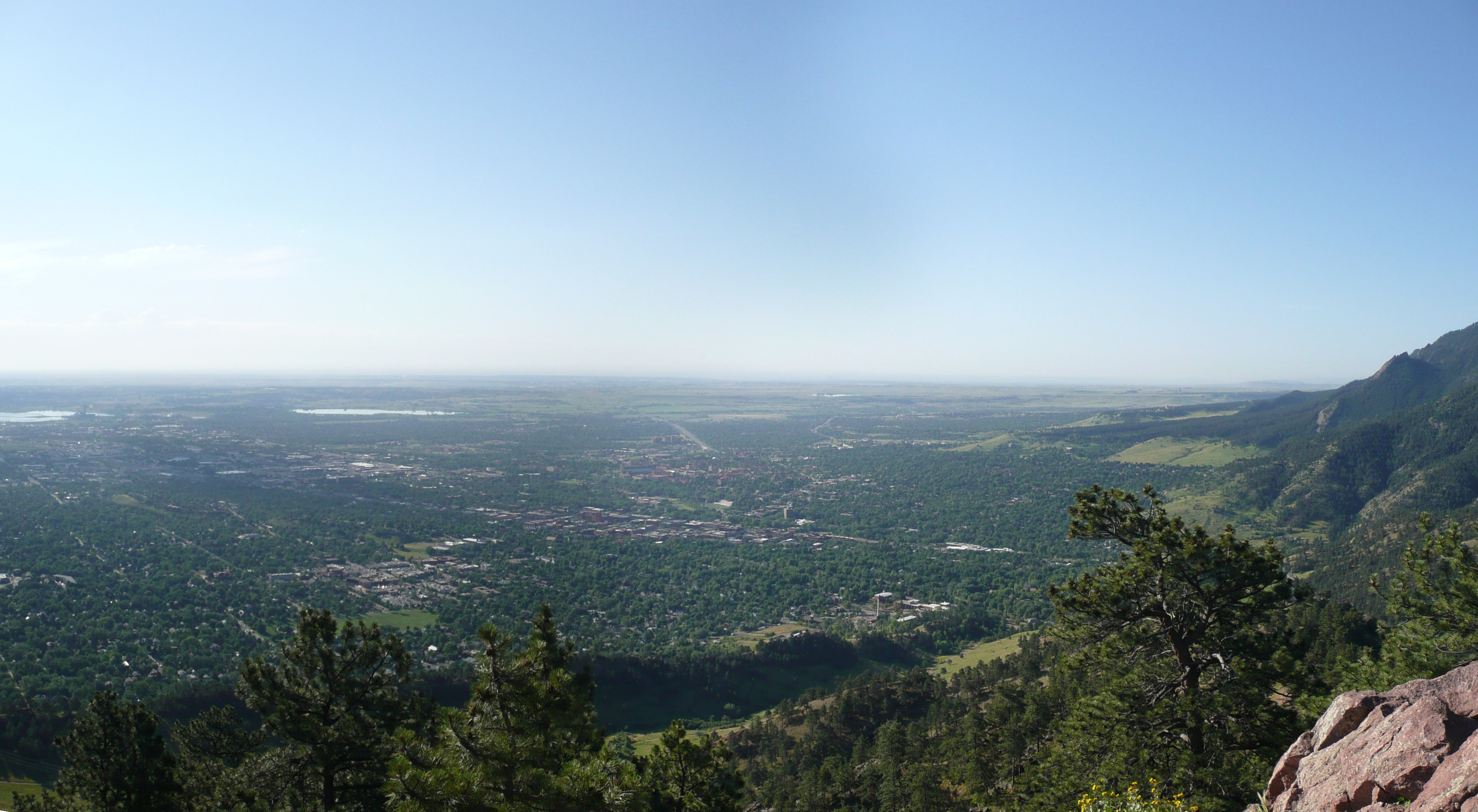 A panorama of Boulder, CO from the top of Mount Sanitas, looking South to South-East.